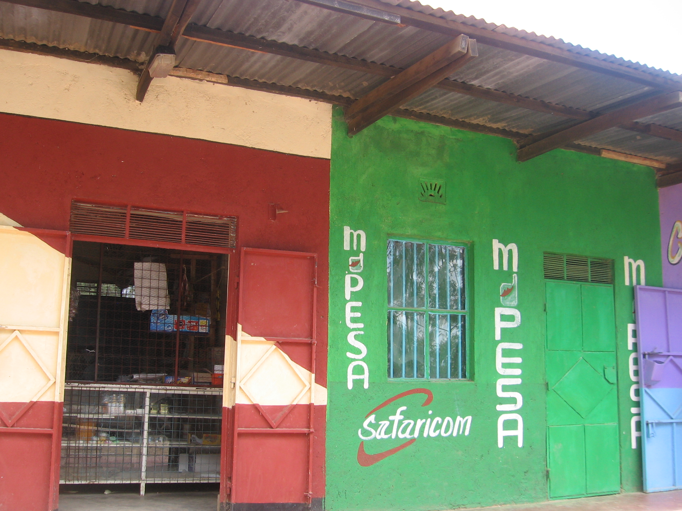 Safaricom